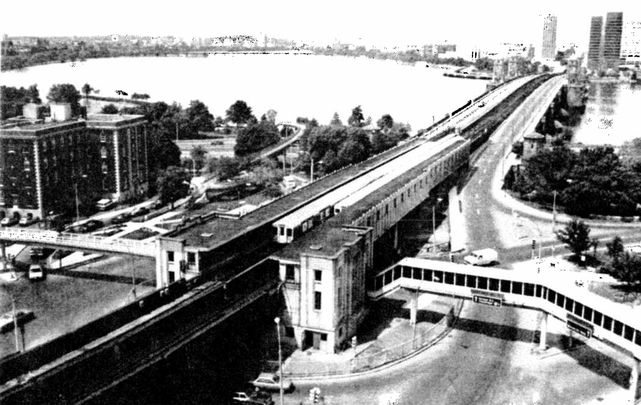 A 1986 view of Charles/MGH station